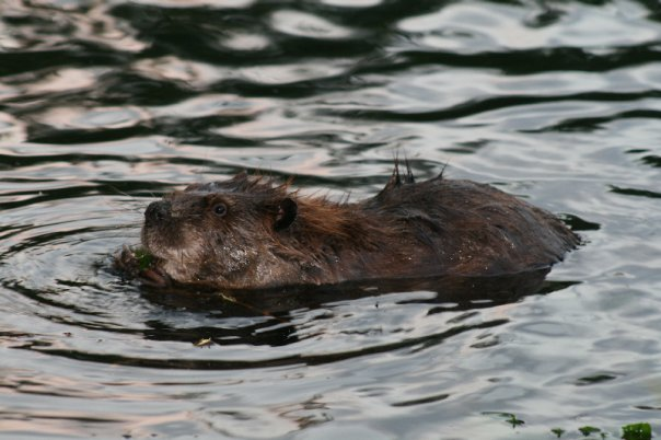 Beaver in Lincoln Park, Chicago